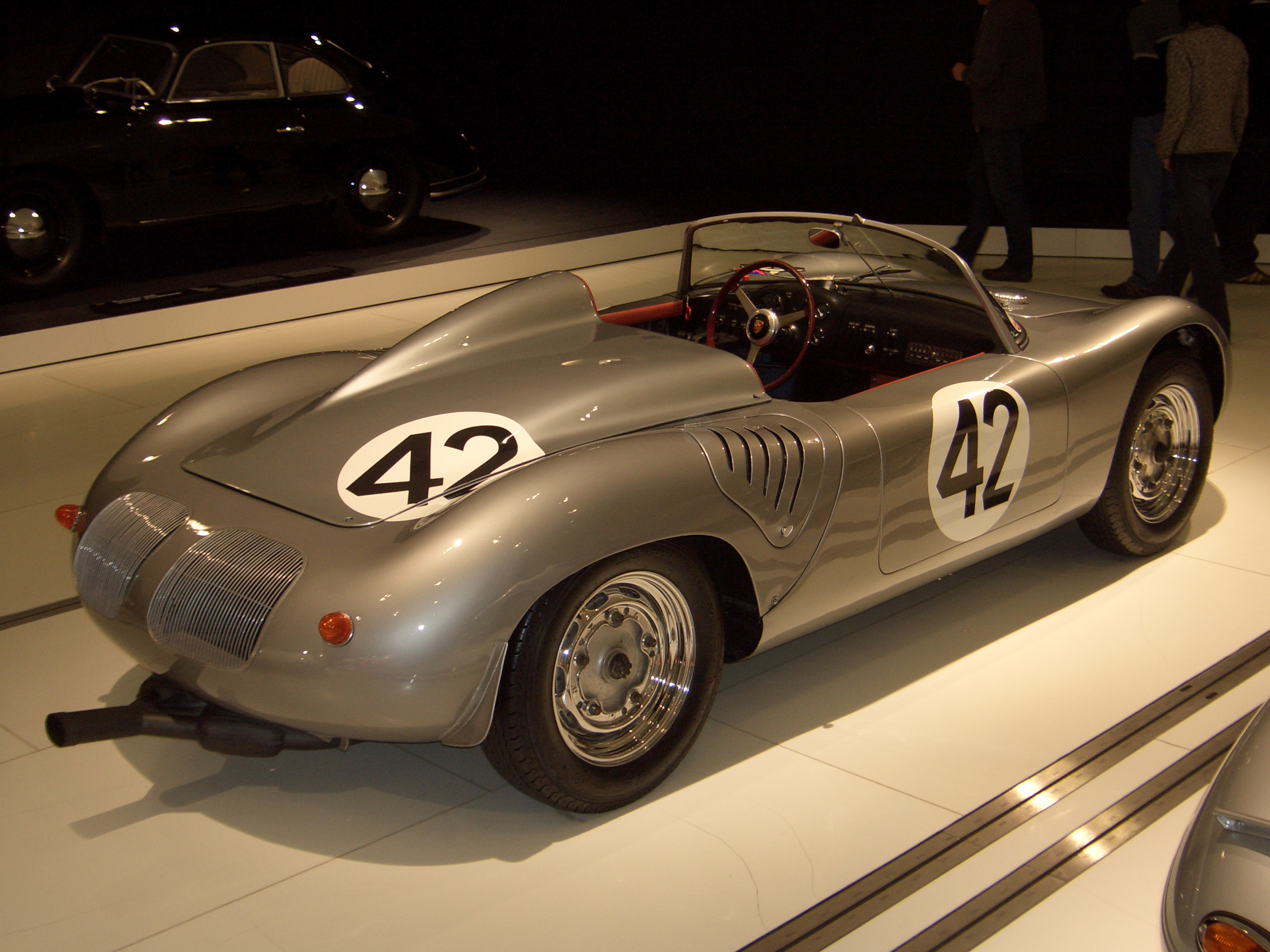 Porsche 718 RS 60 Spyder 1960 backright - seen at Porsche Museum Native namePorsche-MuseumLocationStuttgartCoordinates48° 50′ 07″ N, 9° 09′ 06″ E Established1976 (old museum) 2009 (new museum)Web page control : Q328623 VIAF: 138511768 GND: 2087859-X SUDOC: 155641123 NKC: ko2015876799 institution QS:P195,Q328623